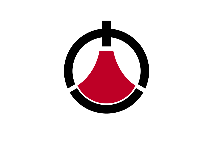 Flag of Toshima, Kagoshima